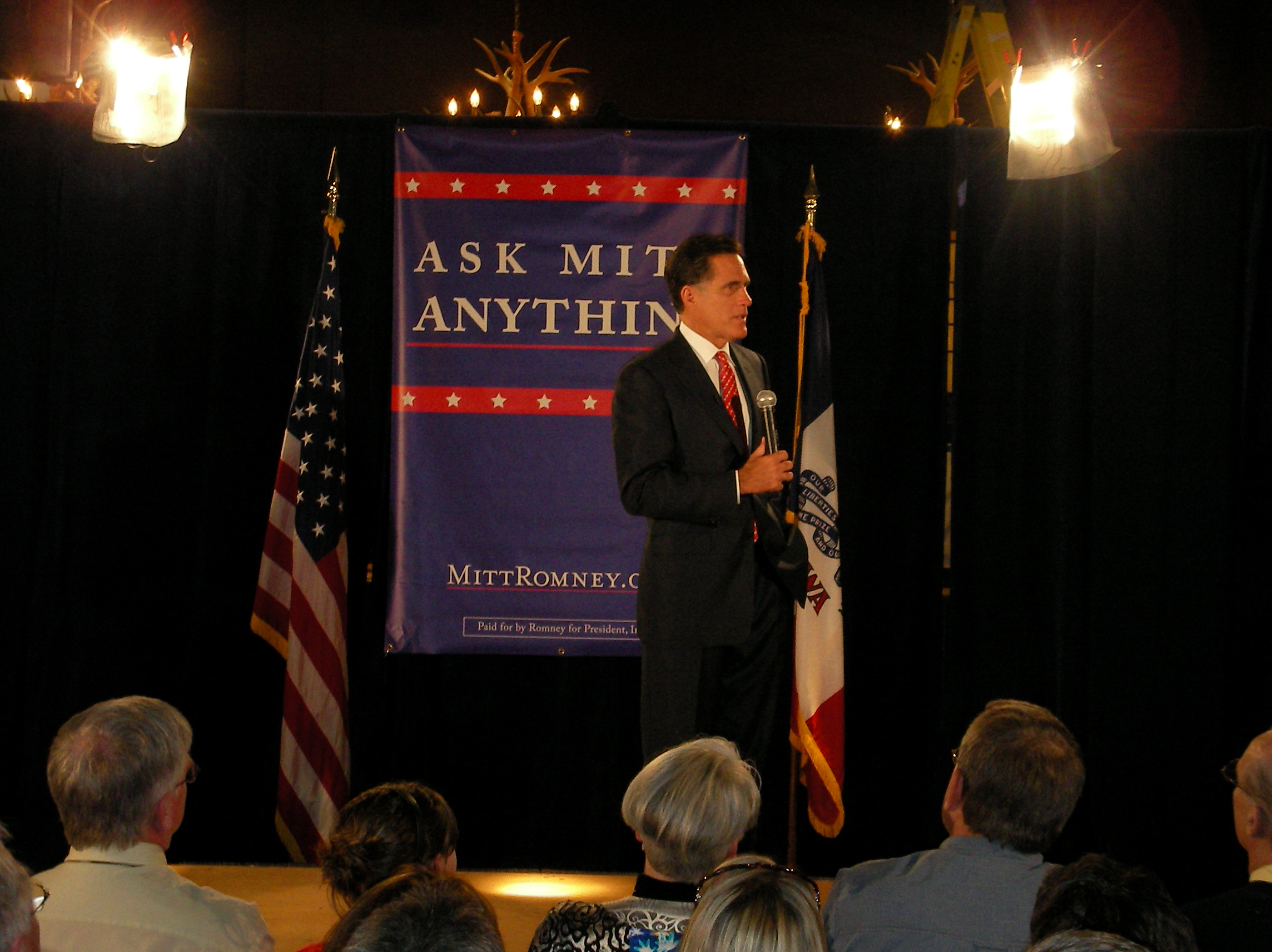 Former Massachusetts Gov. Mitt Romney, a GOP presidential hopeful, campaigns May 9 in Ames.